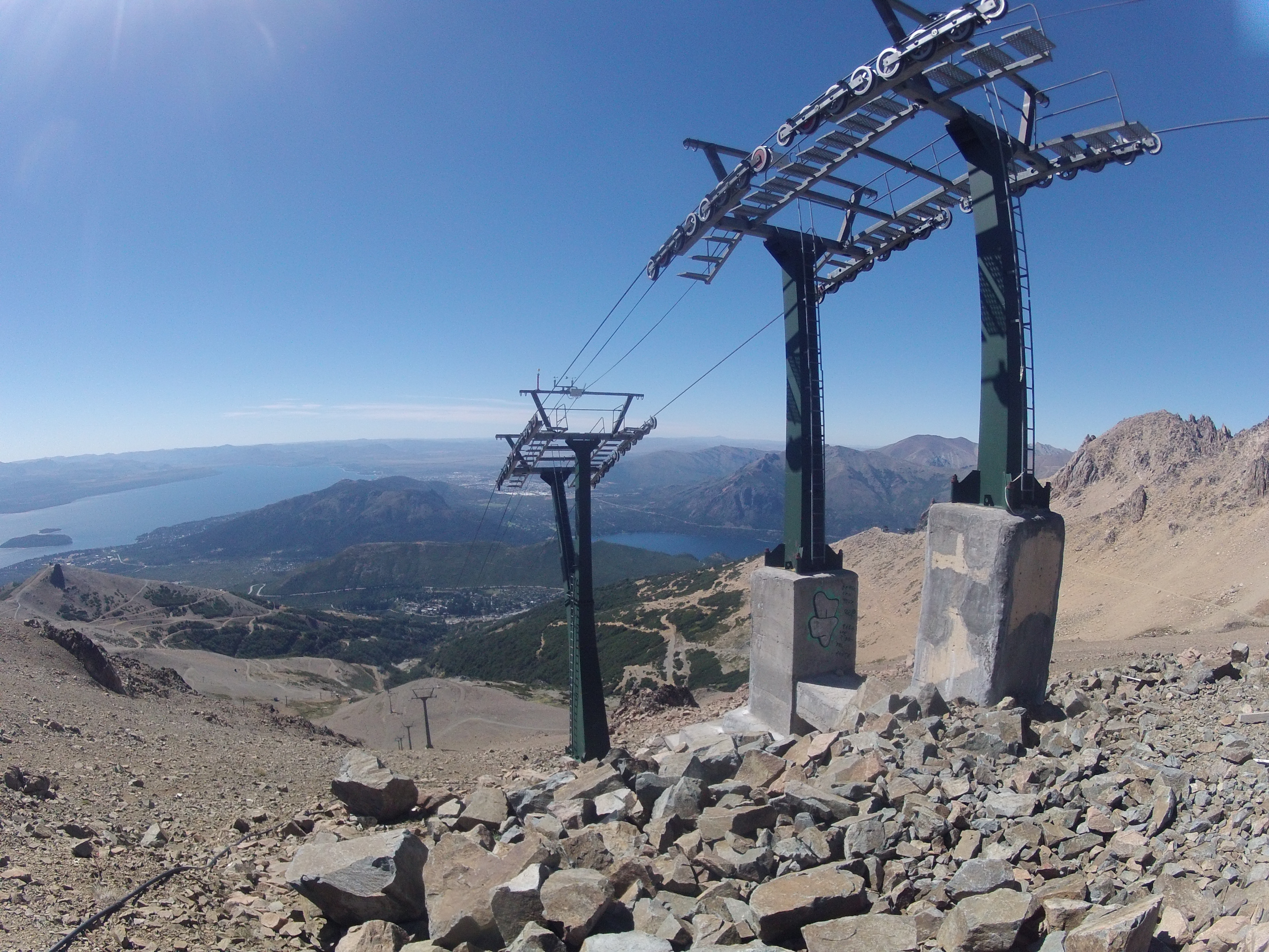 catedral mountain bariloche